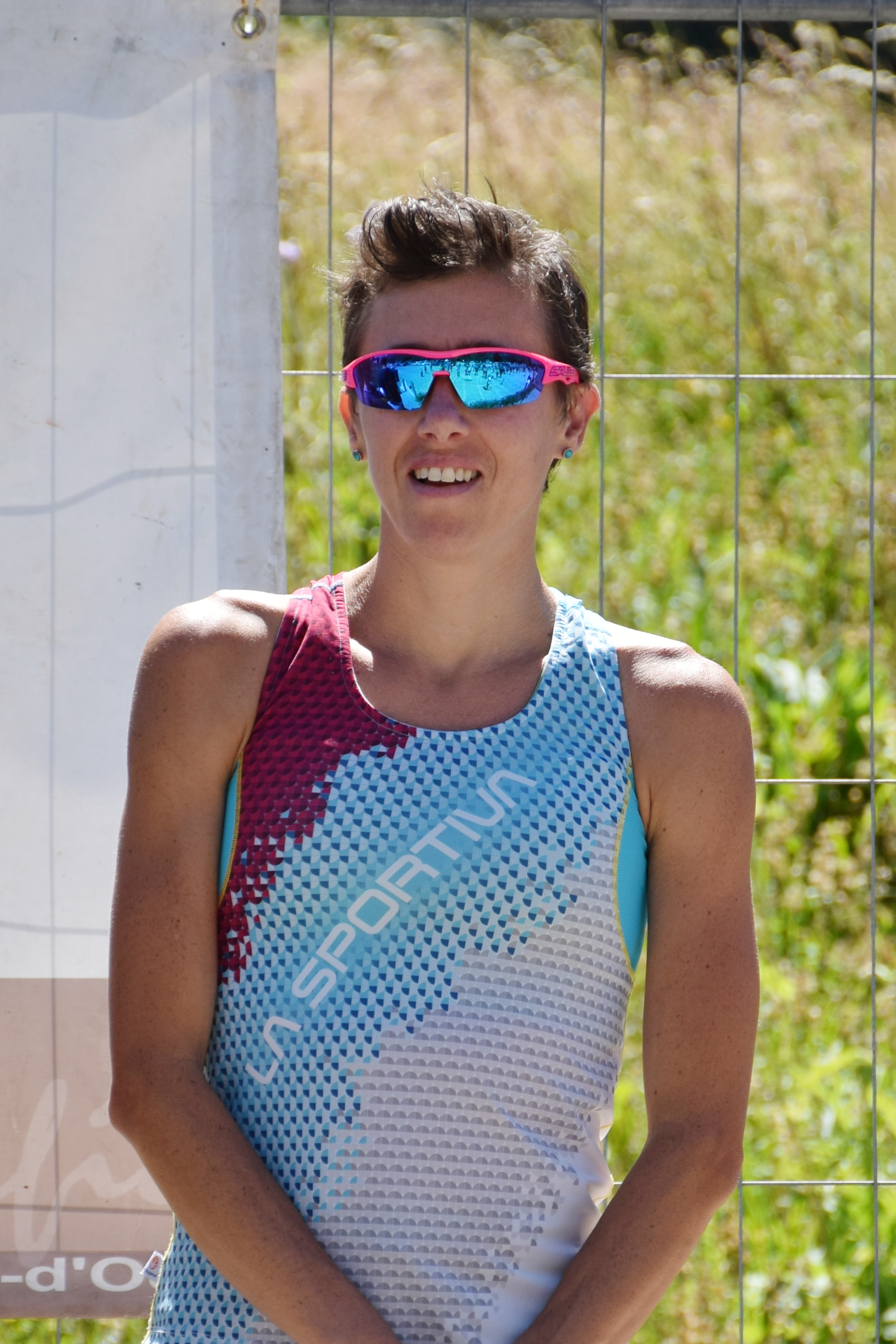 Valentina Belotti on podium at 2020 Rougemont-Videmanette Run (cropped picture)